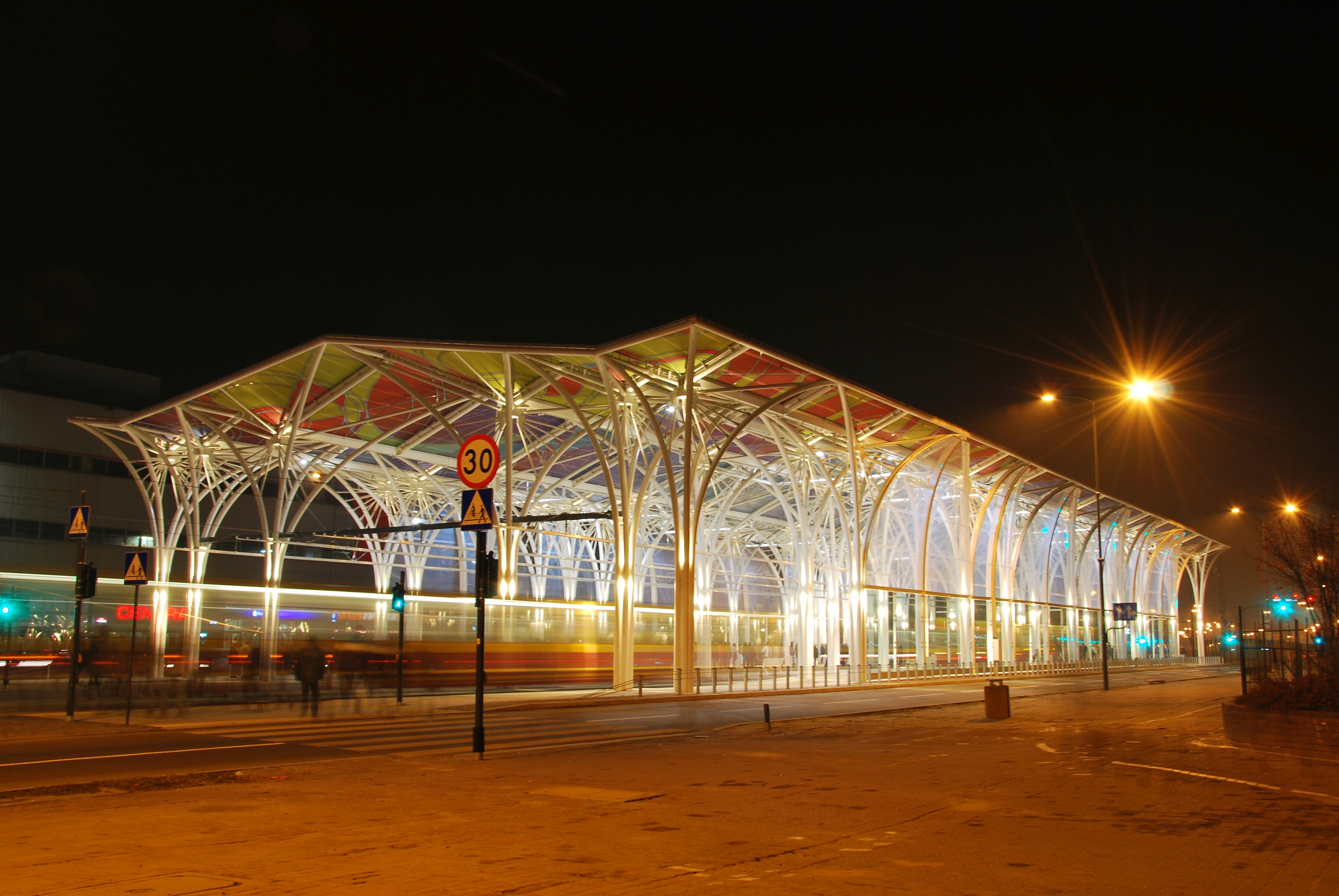 Tram transfer station, Łódź Piłsudskiego Av. October 2015